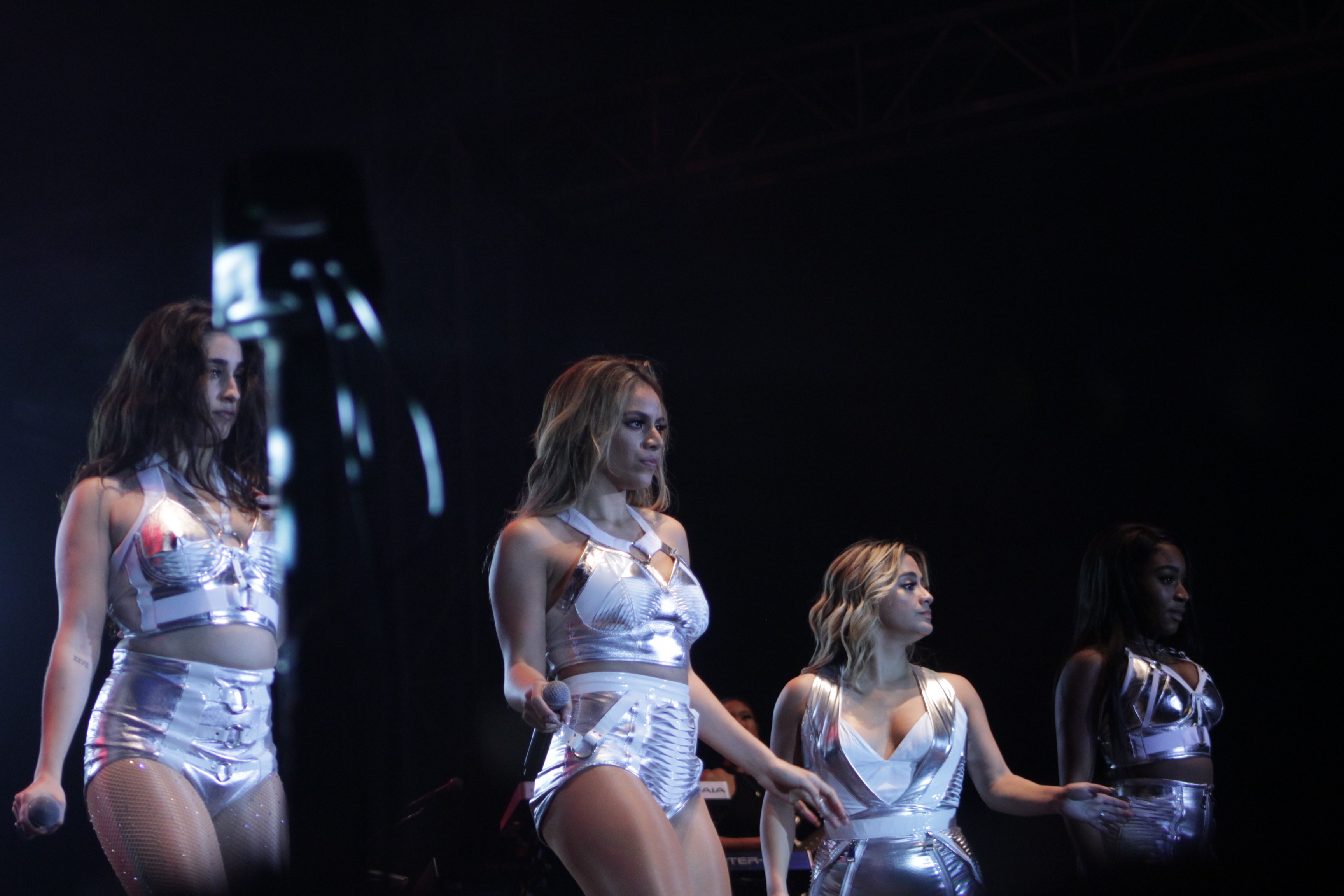 Fifth Harmony (Lauren Jauregui, Normani Kordei, Dinah Jane Hansen, Ally Brooke Hernandez) perform at the Los Angeles County Fair in Pomona, Ca. on Sep. 15, 2017. Taken by Dominique Redfearn